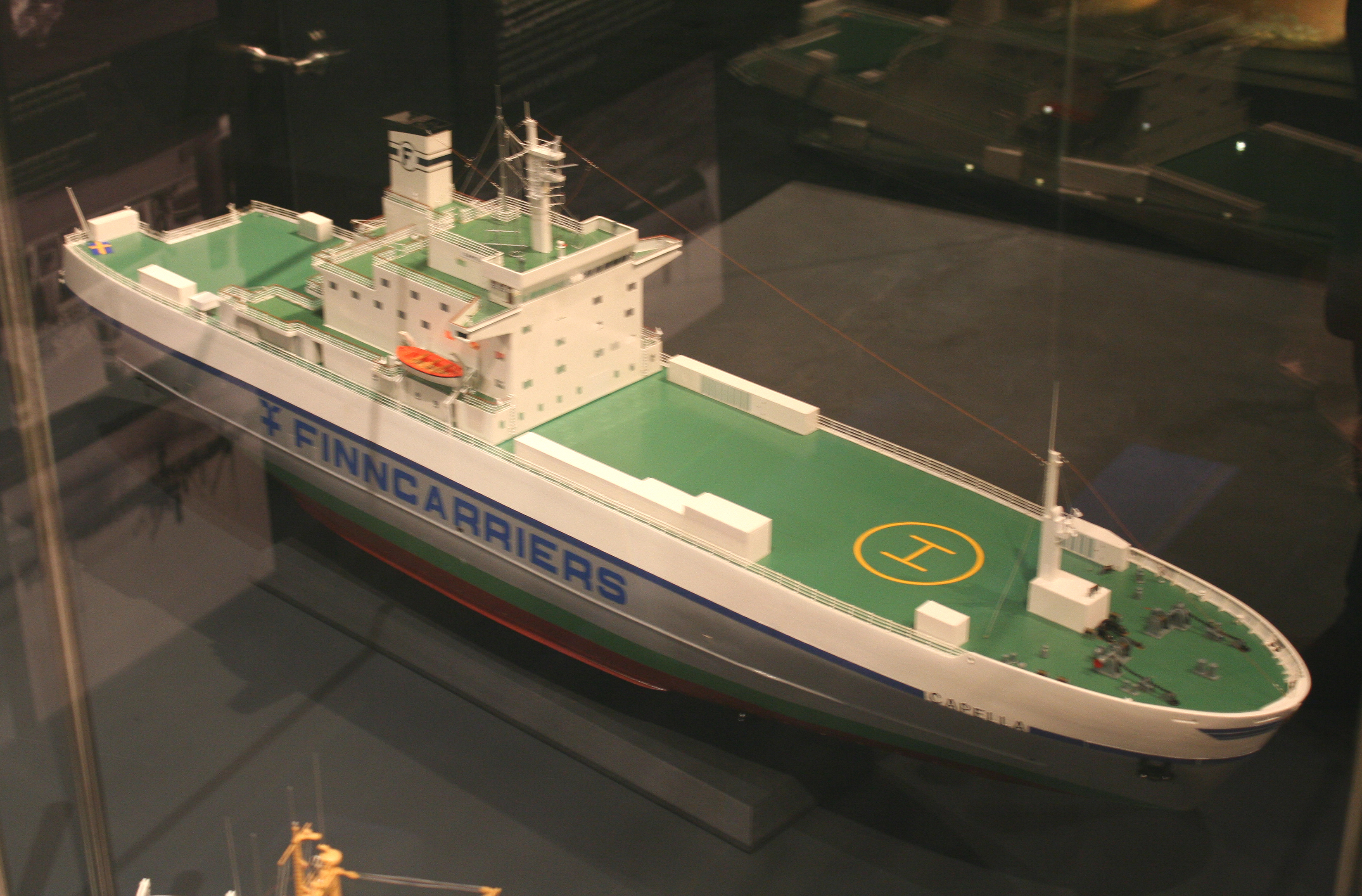 A model of Finncarriers' ro-ro freighter MS Capella av Stockhom (built 1972 as MS Hans Gutzeit). The model is on display at the Finnish Maritime Museum in Maritime Center Vellamo in Kotka, Finland.